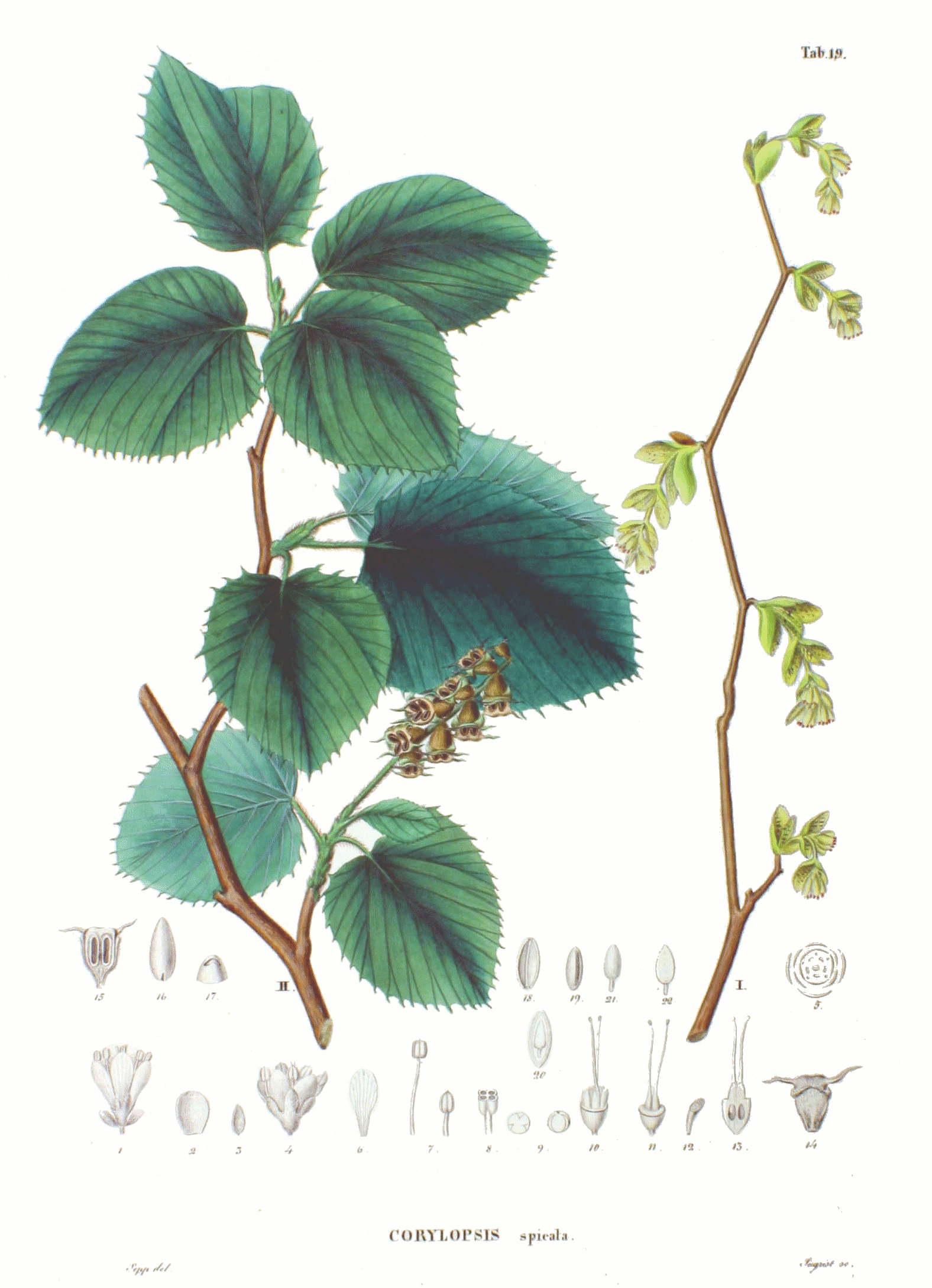 Plate from book